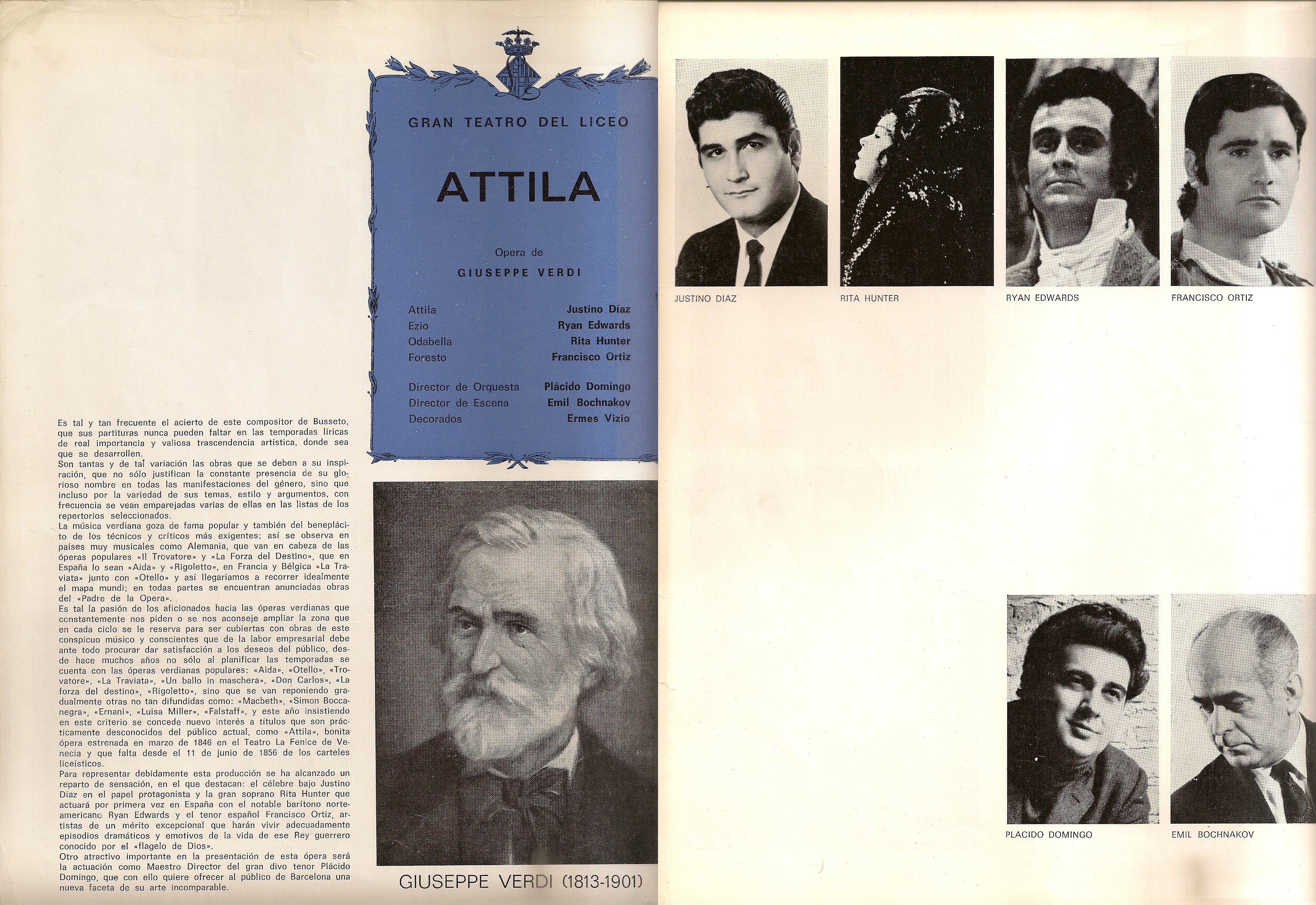 Emil Boshnakov - Bulgarian Opera Director - Gran Teatro del Liceo - Attila by Giuseppe Verdi (1971)